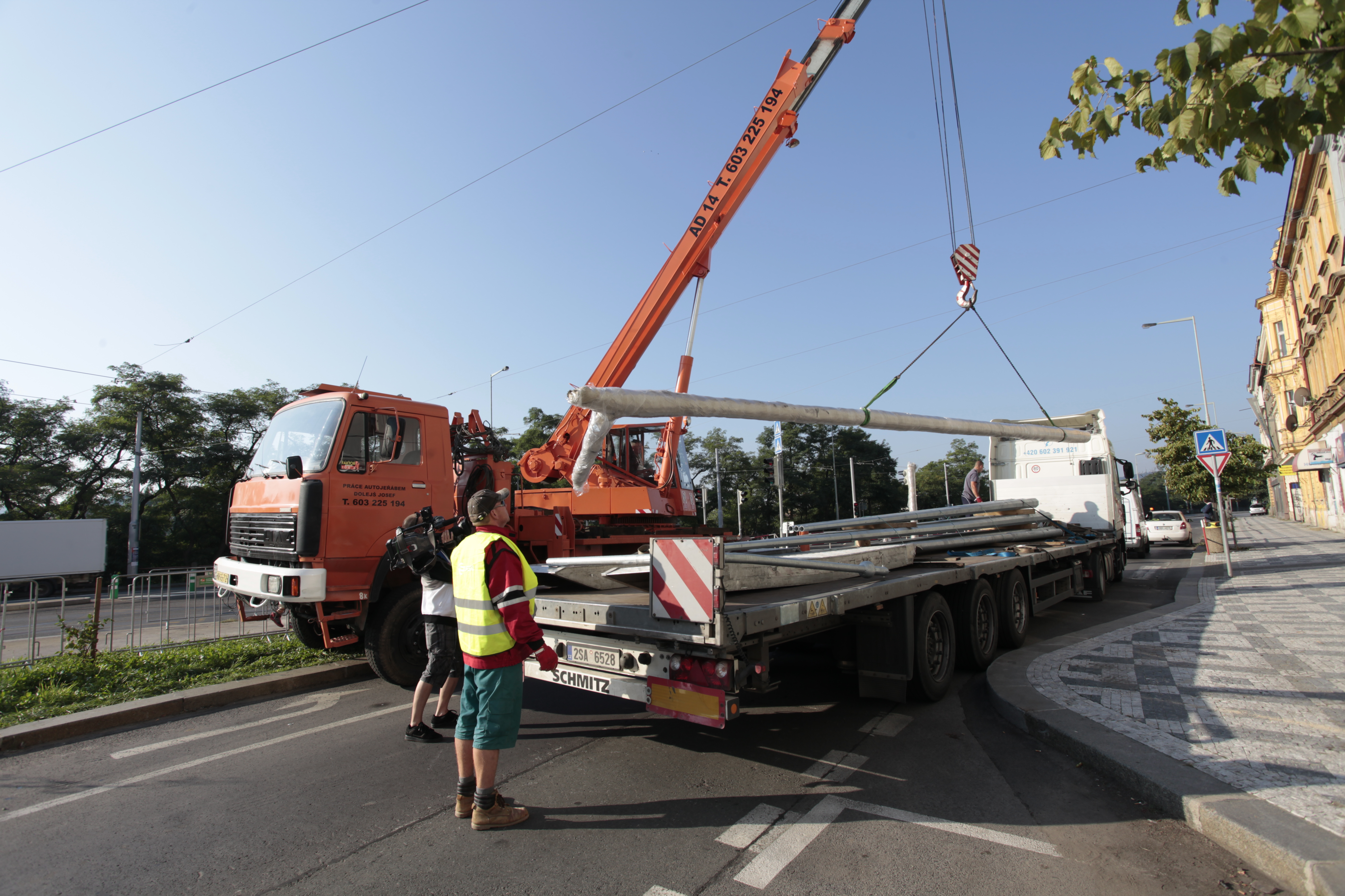 Instalation of Bike to Heaven, a memorial of the activist Jan Bouchal. Author: Krištof Kintera, place: Kapitána Jaroše Embankment, Holešovice, Prague, the Czech Republic.